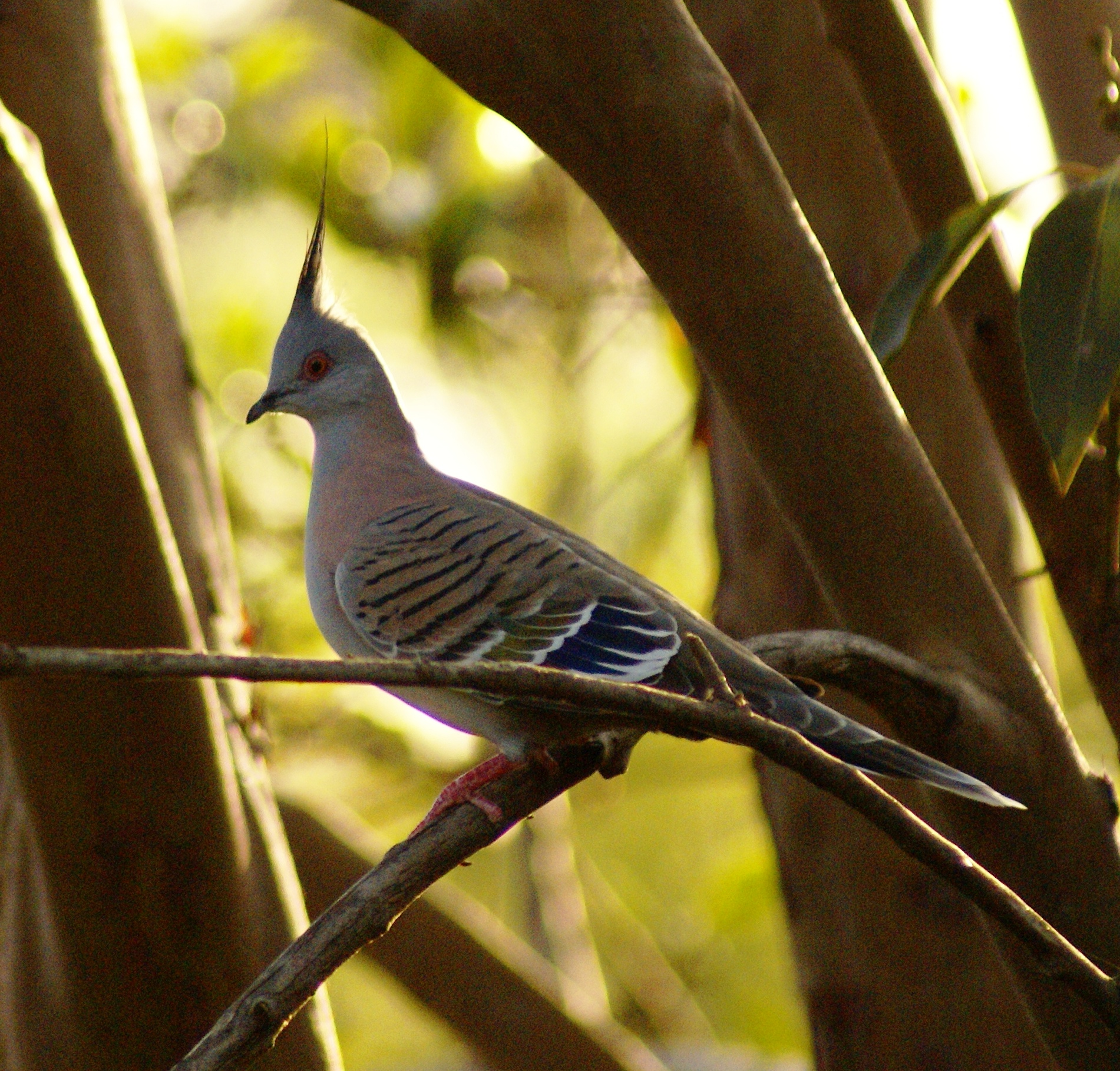 A Male Crested Pigeon